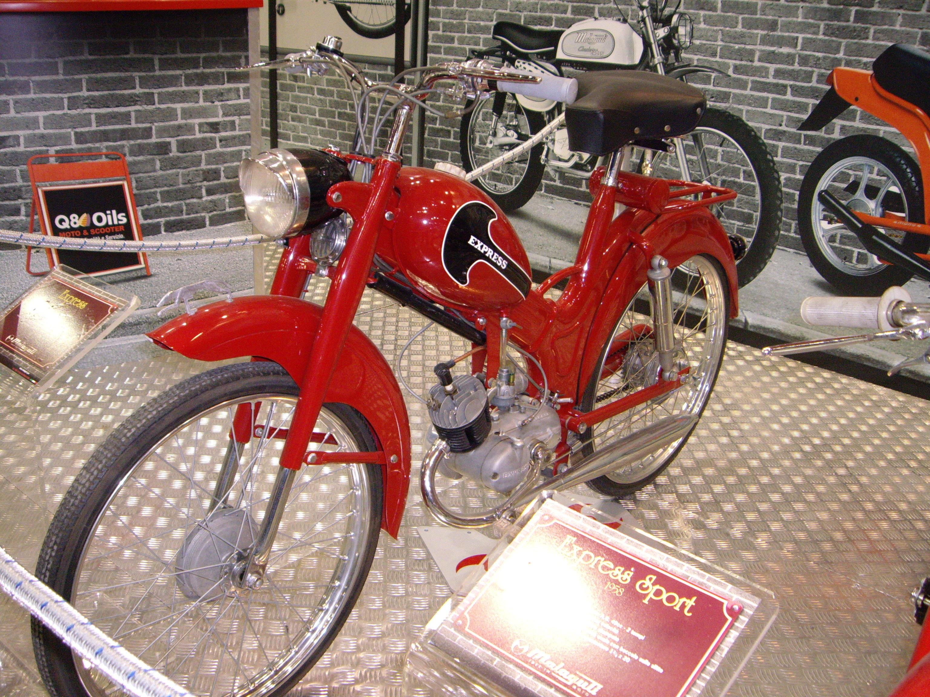 MALAGUTI Express 50cc late 50s